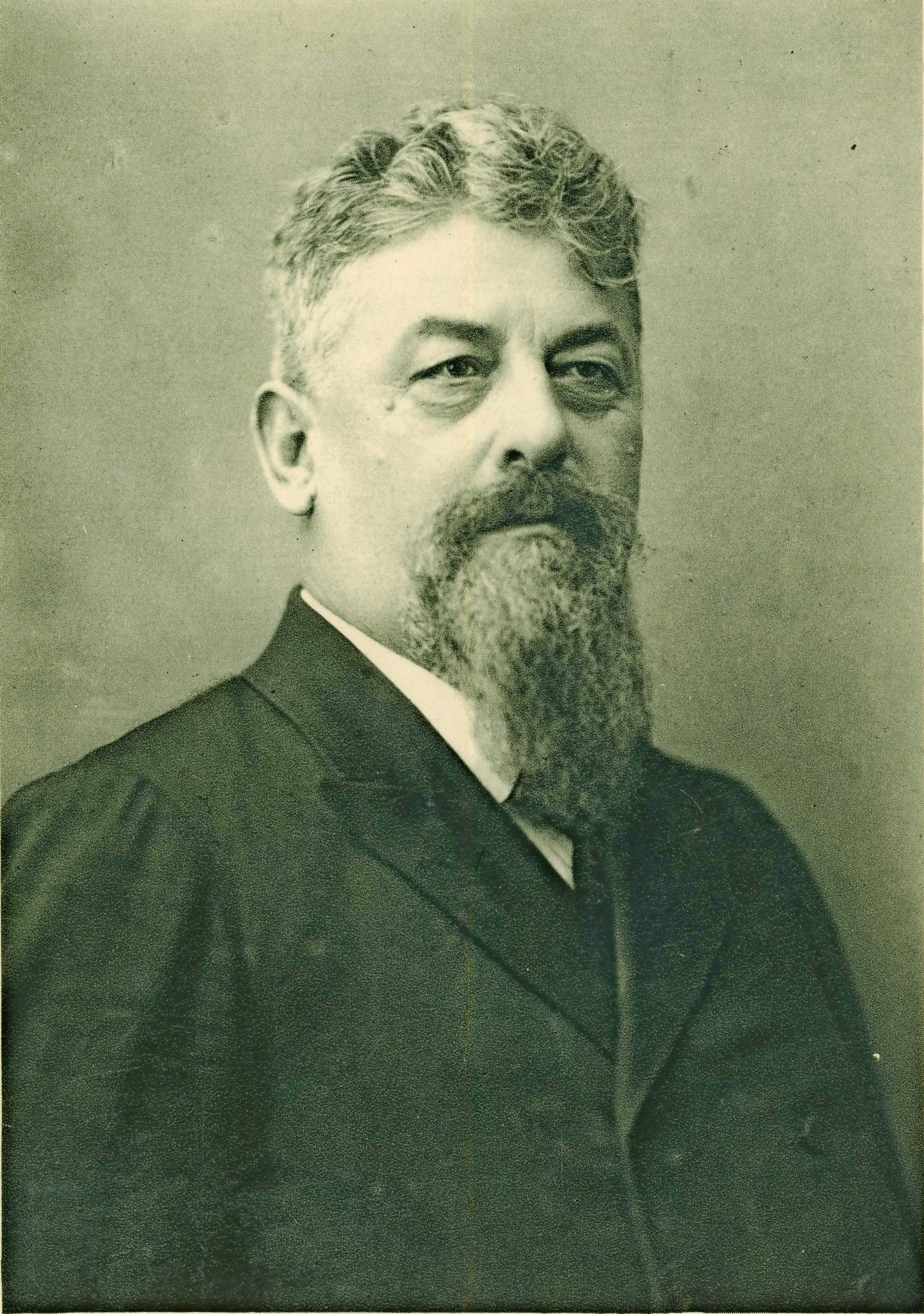 Ivan Tavčar (1851-1923)